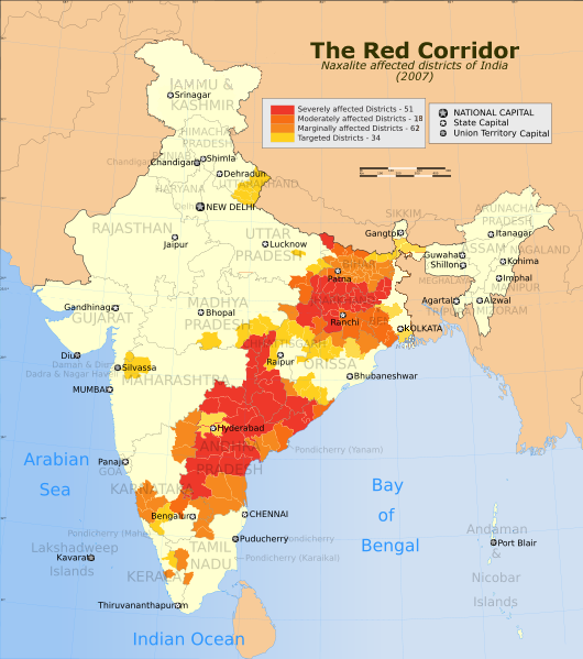 The Red Corridor. A relatively underdeveloped region in eastern India that has Naxalite communist militant activity.